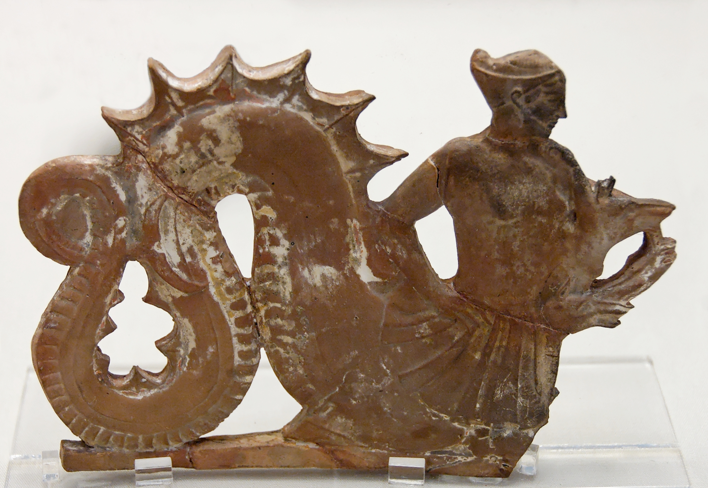 The sea-monster Skylla. Terracotta plaque, Melos, 460–450 BC. Found on Aegina.